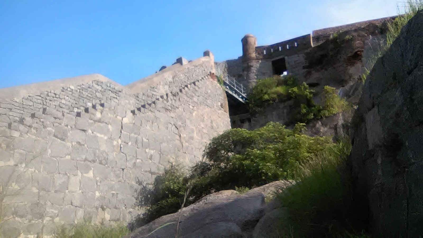 செஞ்சிக்கோட்டை இழுவைப்பாலம் படிக்கட்டு அருகில்